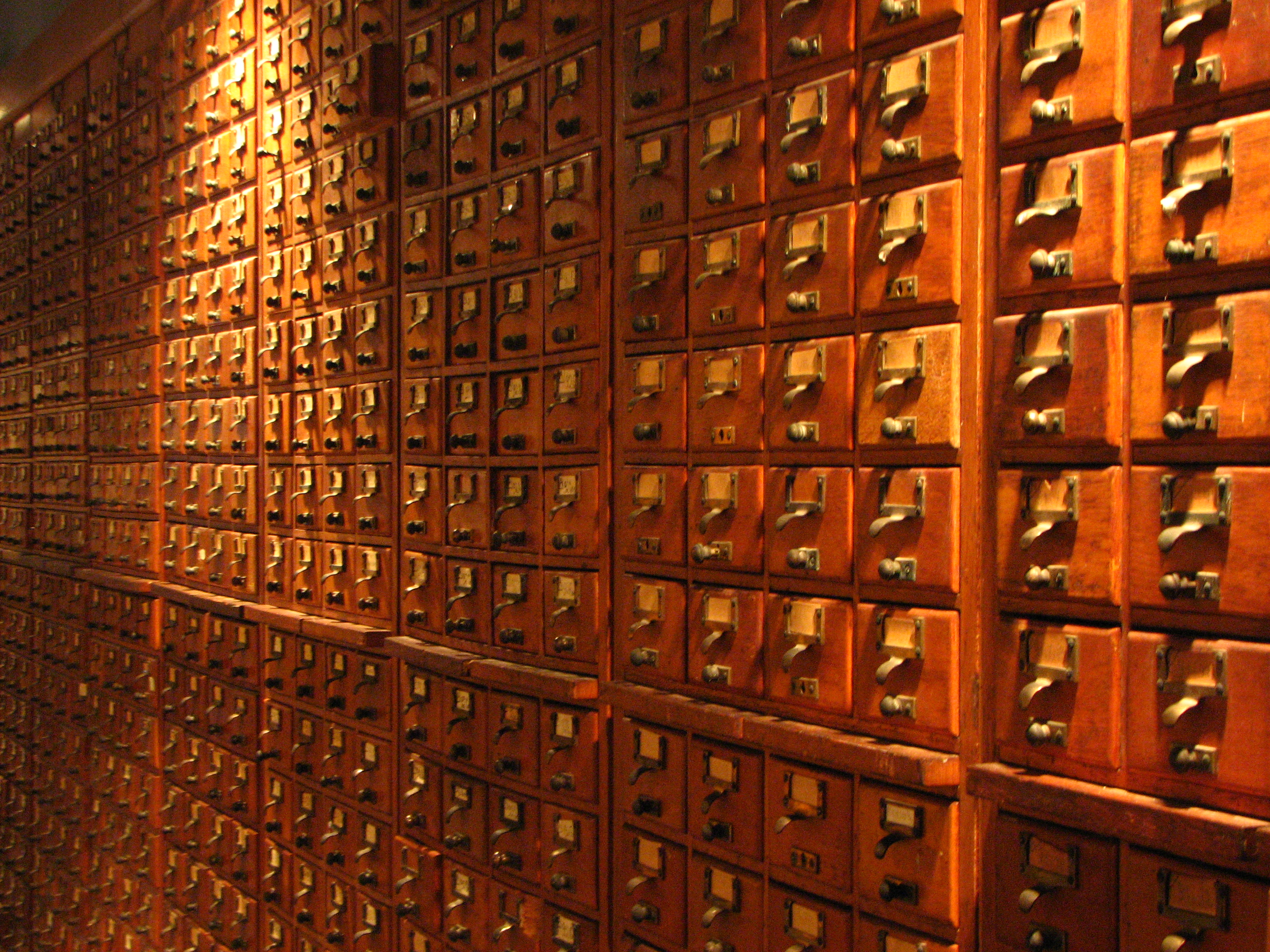 Drawers of the Mundaneum's Universal Bibliographical System bibliographic index cards, which in the present day reside at Mundaneum in Mons, Belgium